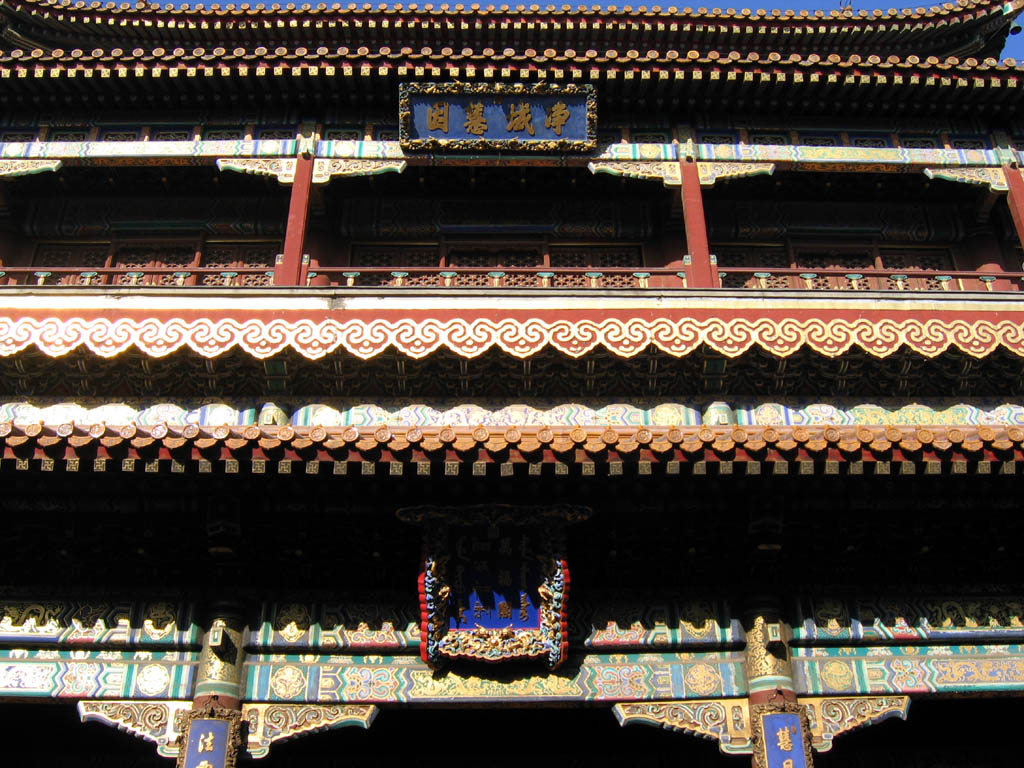 The Yonghe Temple (雍和宮), also known as the "Palace of Peace and Harmony Lama Temple", the "Yonghe Lamasery", or - popularly - the "Lama Temple" is a temple and monastery of the Geluk School of Tibetan Buddhism located in the northeastern part of Beijing, China.